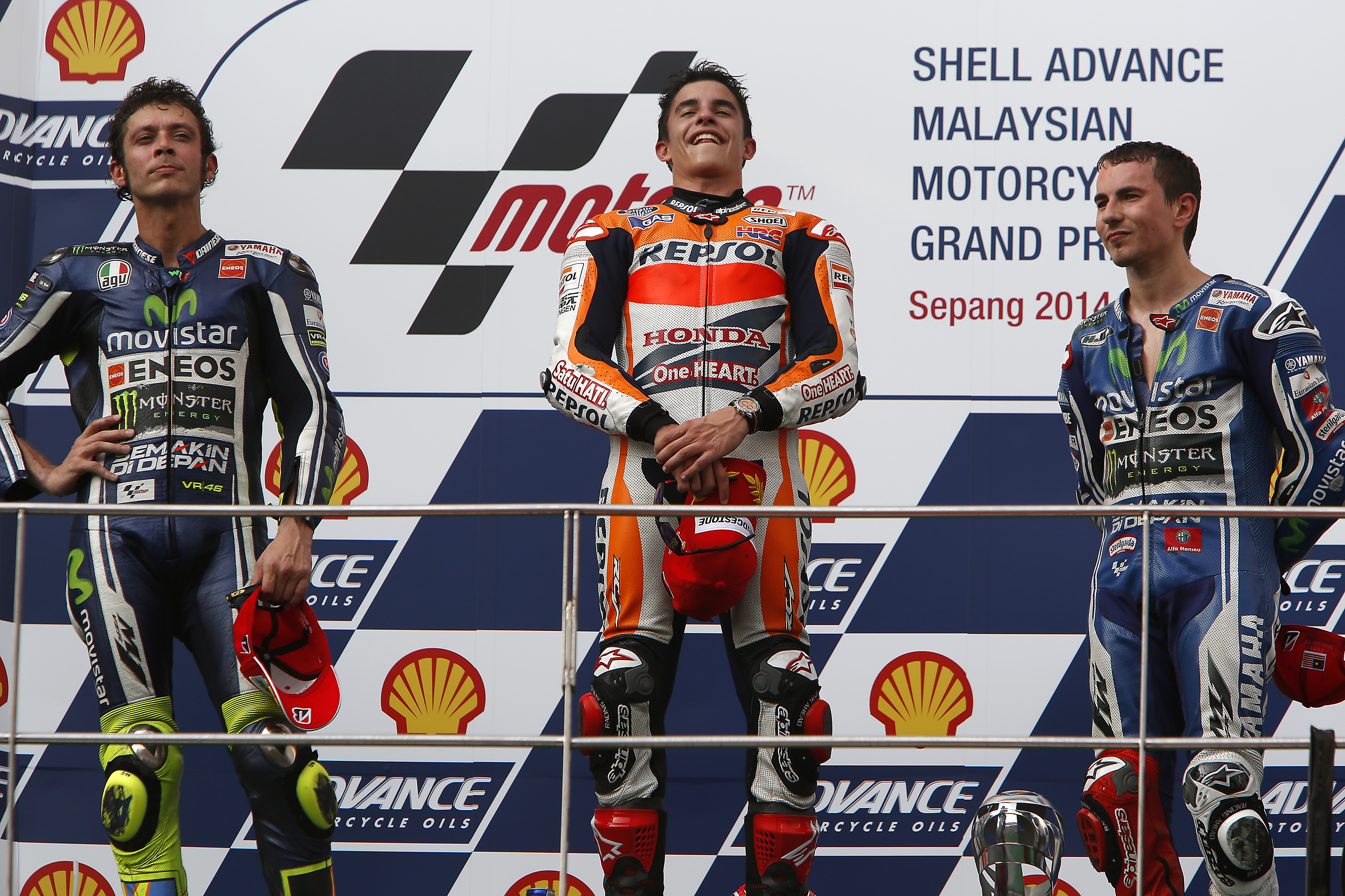 Valentino Rossi, Marc Márquez and Jorge Lorenzo, celebrating on the podium after finishing in second, first and third place at the 2014 Malaysian Grand Prix.